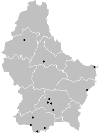 A map of cantons of Luxembourg after mergers of 2006-01-01, with locations of teams in the Luxembourg National Division in season 2003-04 marked.